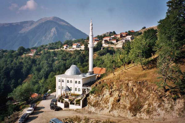 Vrbjani mosqueShqip: Xhamia e Vërbjanit